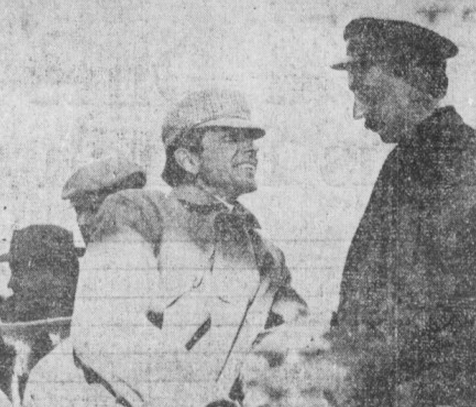 William C. Durant of General Motors chatting with President Hinz of the Lowell, Massachusetts, Automobile Club in 1909.